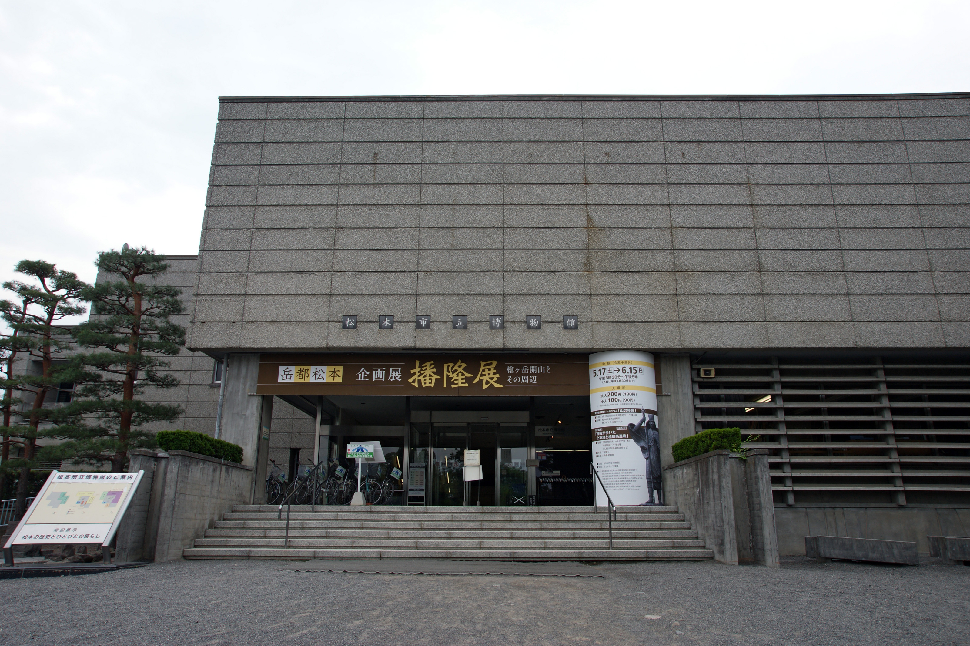 Matsumoto City Museum in Matsumoto, Nagano prefecture, Japan